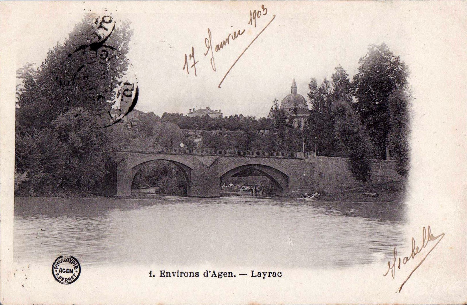 Layrac (France). Bridge over the River Gers. Postcard from 1903. Publisher: F. Perret. Agen.